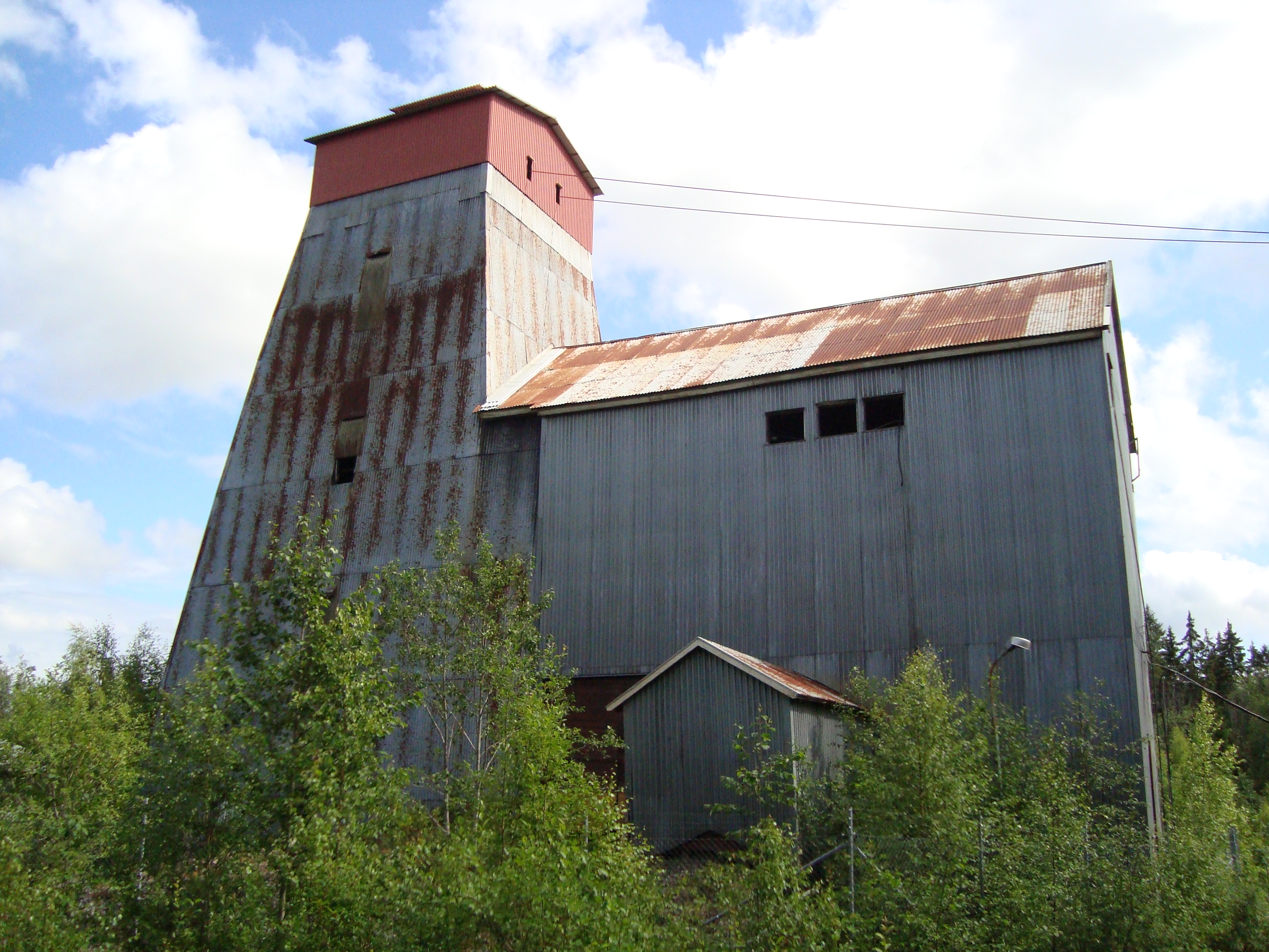 Smältarmossgruvan abandoned iron mine, Garpenberg, Sweden